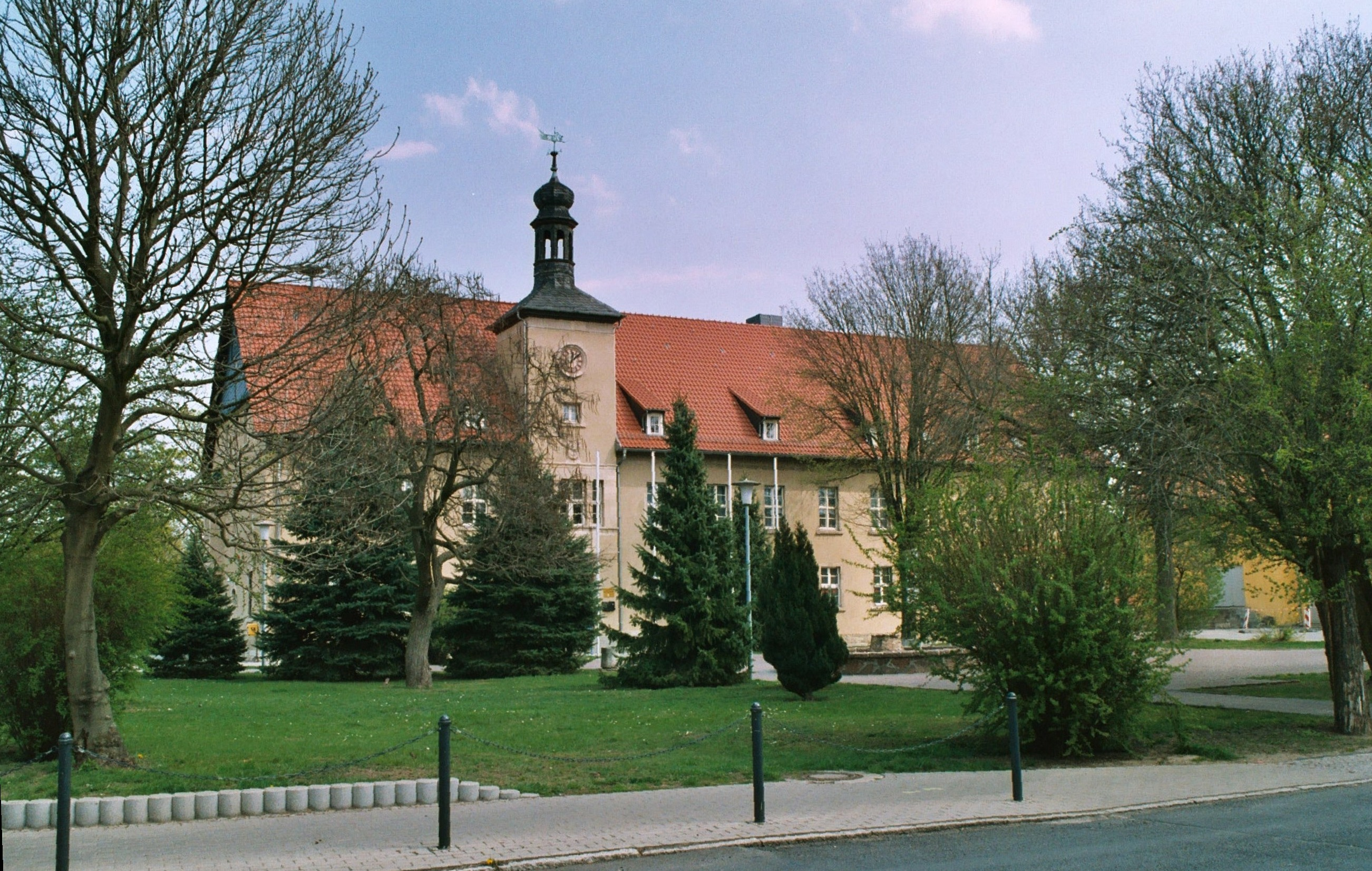 Nachterstedt (Seeland), the town hall